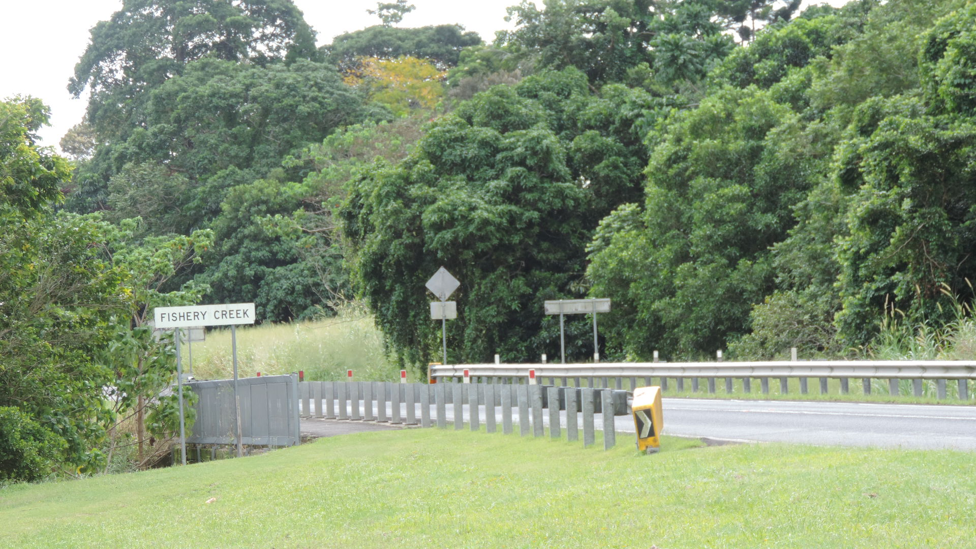 Bruce Highway crosses a bridge over Fishery Creek, Fishery Falls, 2018